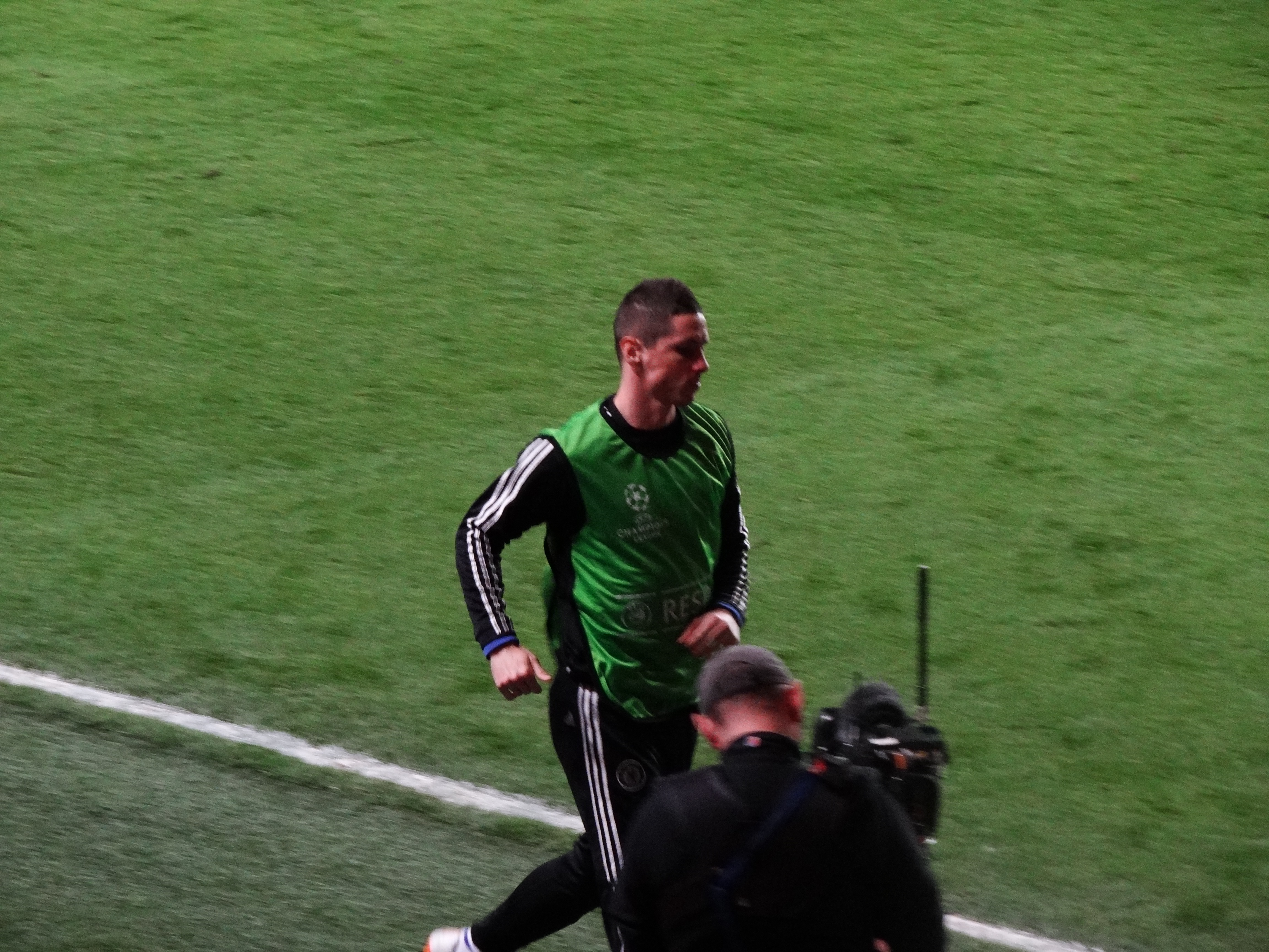 Chelsea FC v Paris Saint-Germain, 8 April 2014, Stamford Bridge, London.